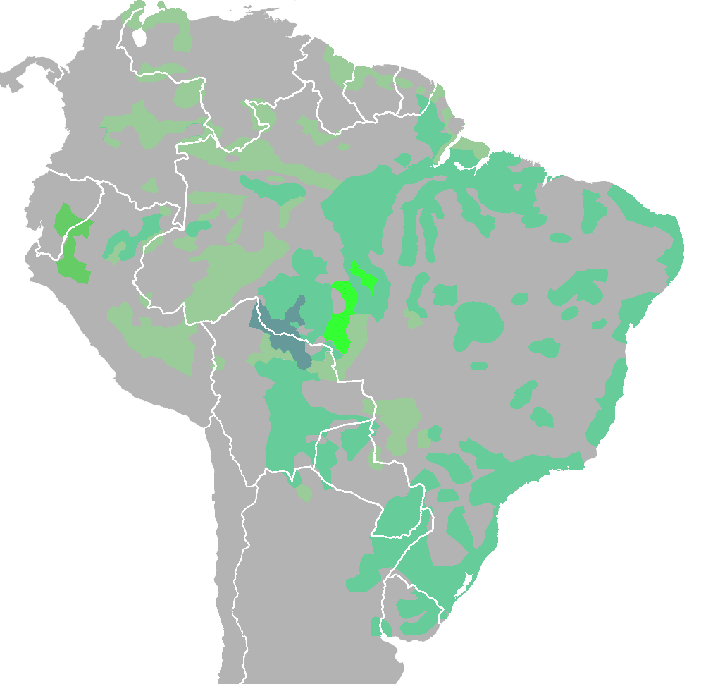 Some of the main groups (from West to East: Macro-Jivaroan, Maipurean, Tupian, Chapakuran, Nambikwaran) of Equatorial Languages, a controversial linguistic groups proposed by Joseph Greenberg (1987) de este a oeste: Macro-Jíbaro, Arawak, Tupi, Chapakura-Wañam, Nambikwara